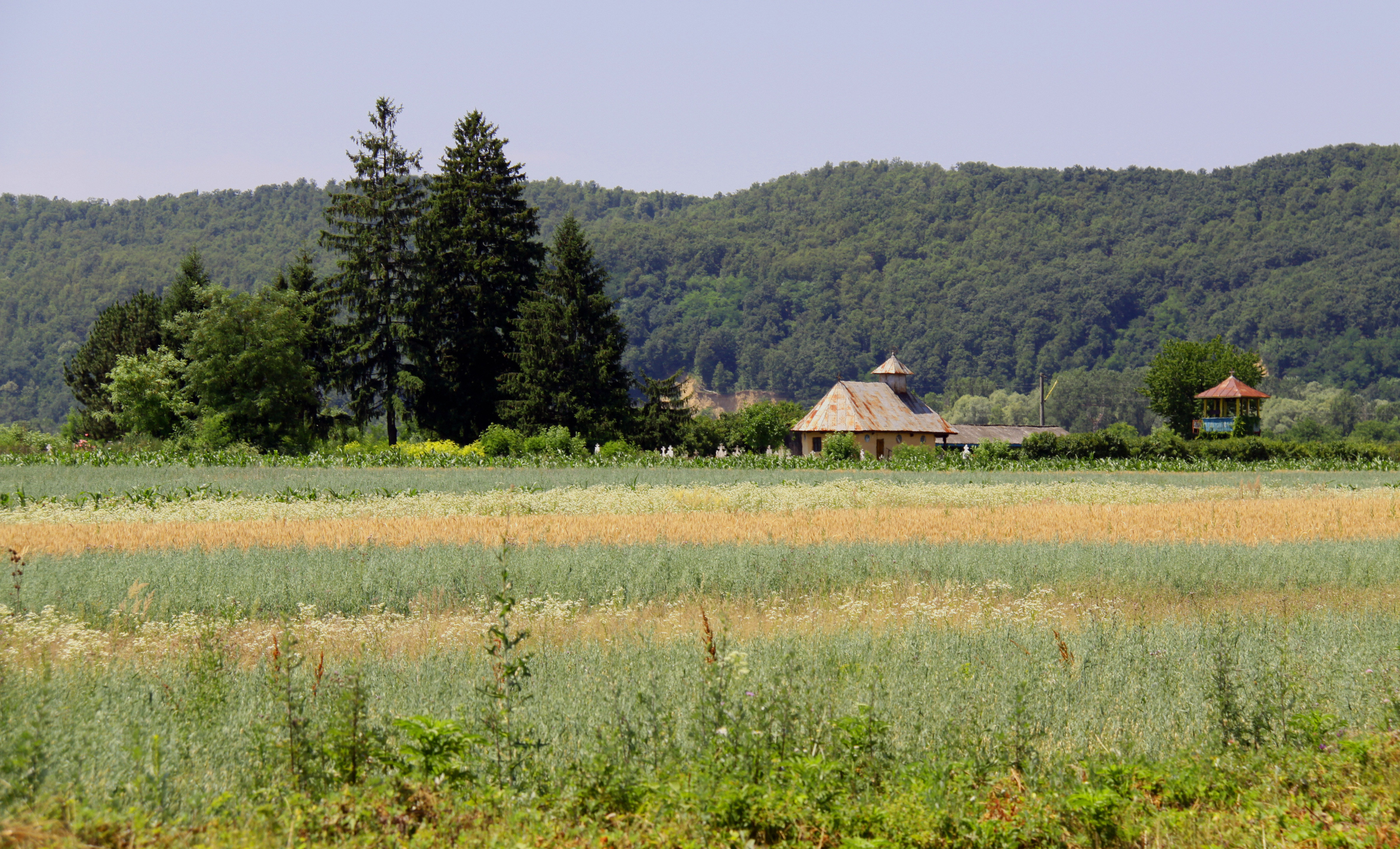 Vidin, Gorj county, Romania: the wooden church.